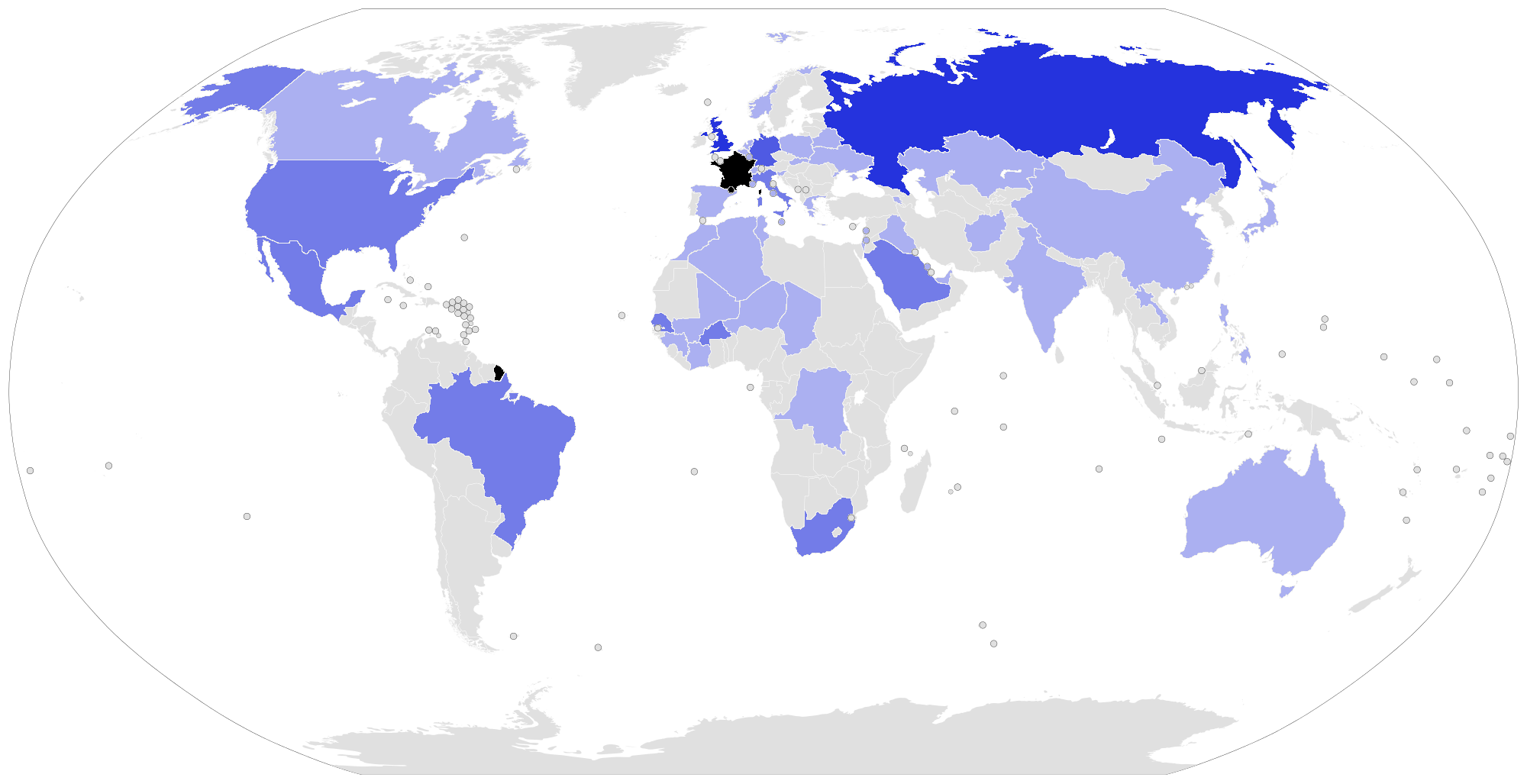 List of presidential trips made by François Hollande